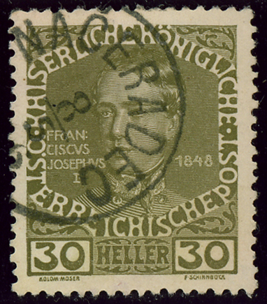 Austrian KK 30 heller stamp, Jubilee 1908 issue, cancelled NACERADEC in 1916 (Bohemia)